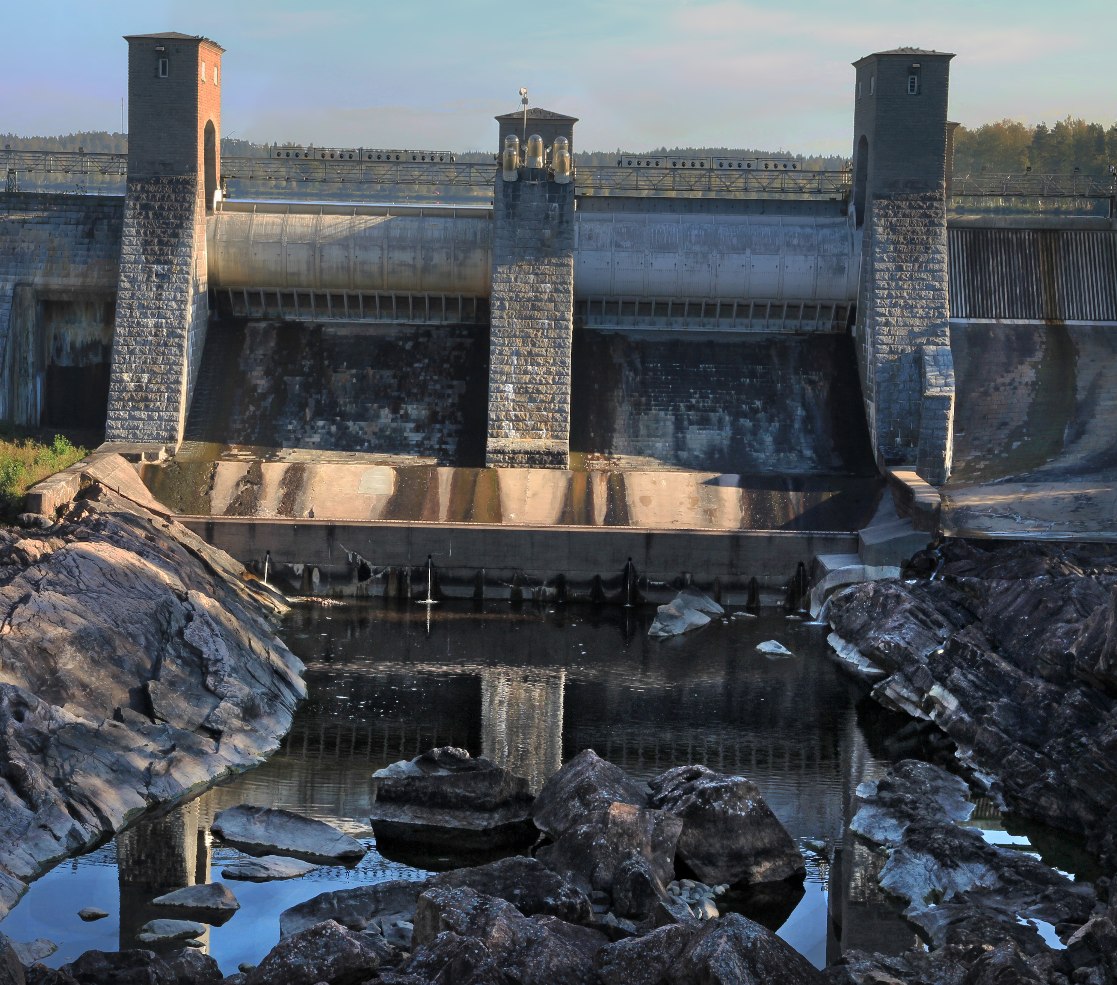 Platinum Imatrankoski in river Vuoksa , Finland